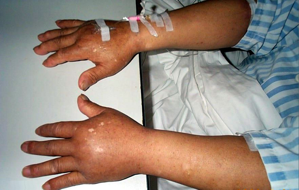 Interleukin-11 (IL-11) caused edema of the hands, due to capillary leak syndrome.